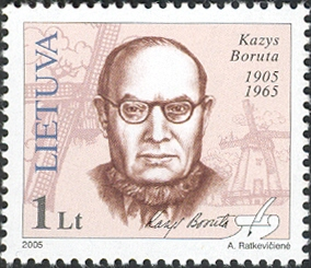 Stamps of Lithuania, 2005